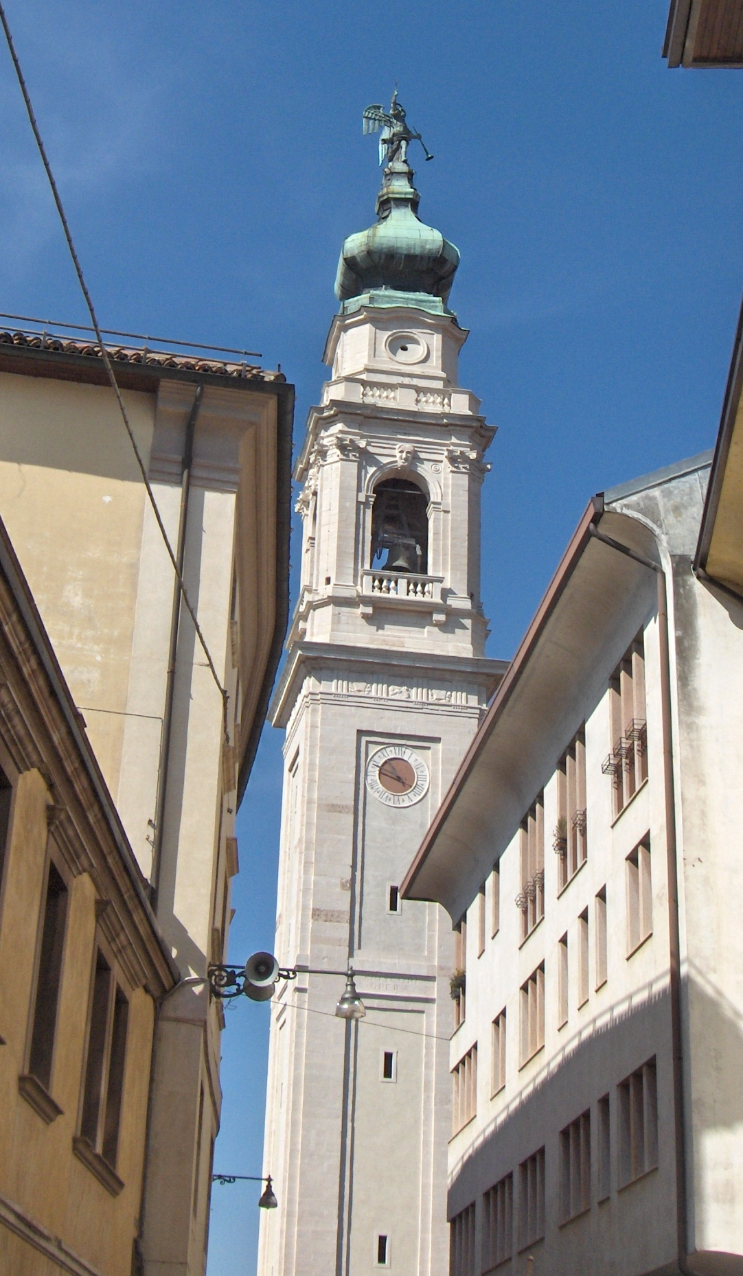 Bell tower of the cathedral of Belluno designed by Filippo Juvara.